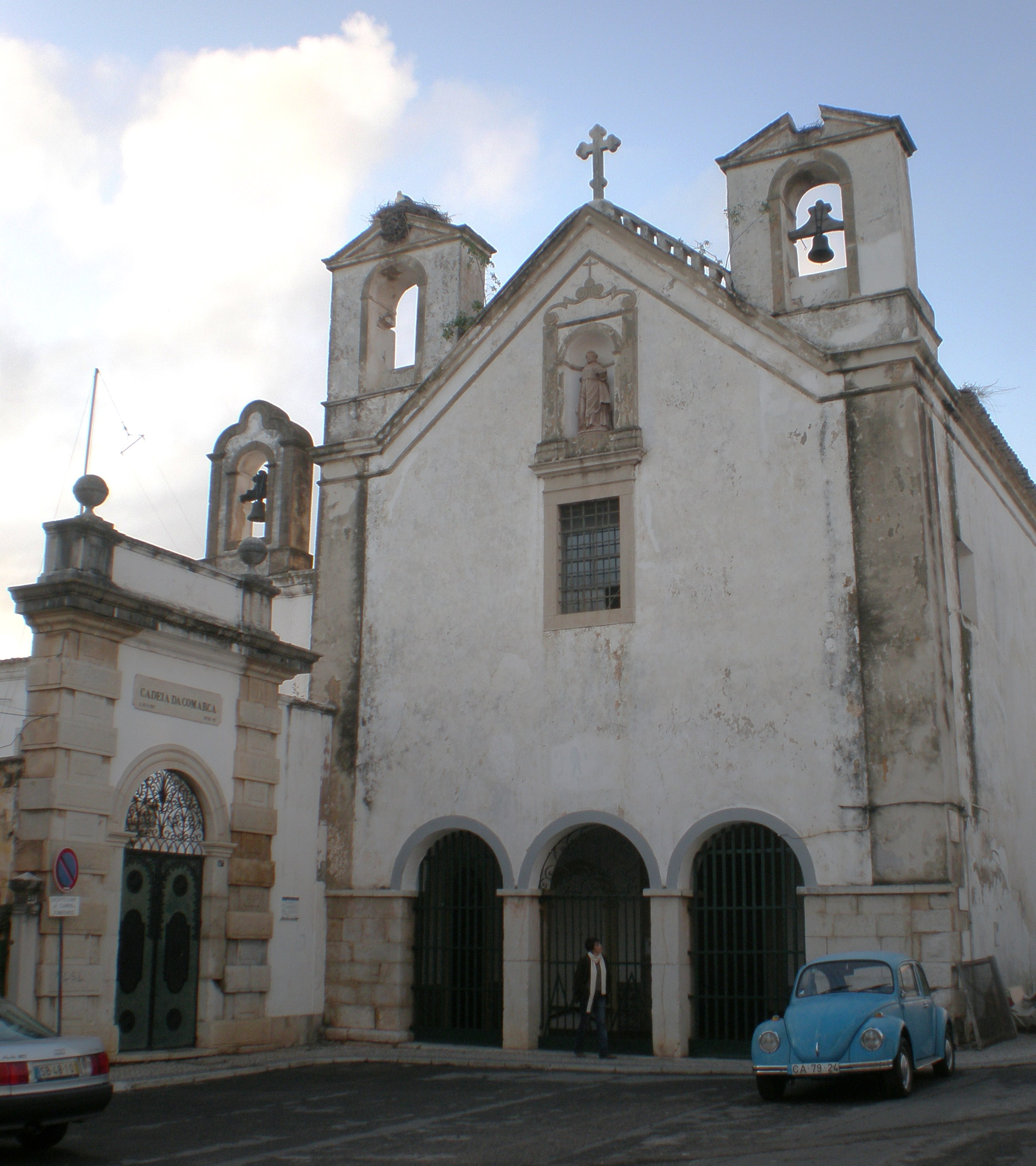 Capuchos' Convent, Faro, Portugal